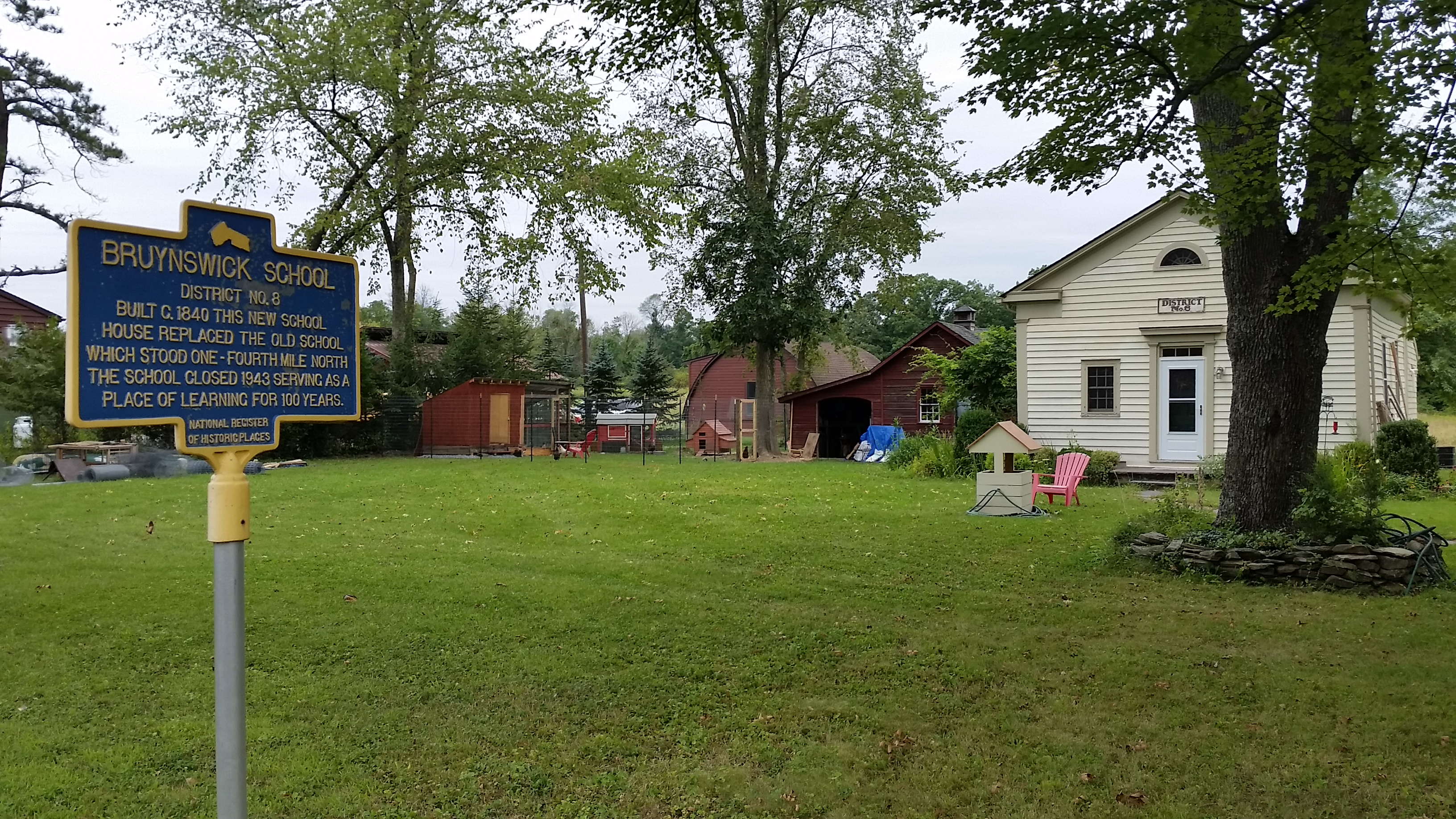 New York state historical marker for the Brunswick School